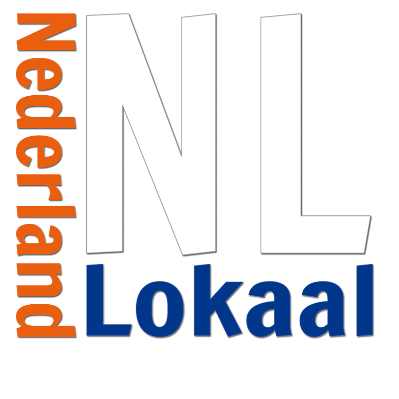 logo to Nederland Lokaal